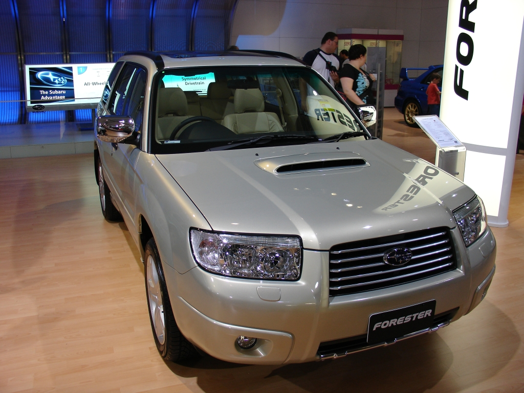 Taken by Ric man at the Melbourne International Motor Show in Feb 2006.